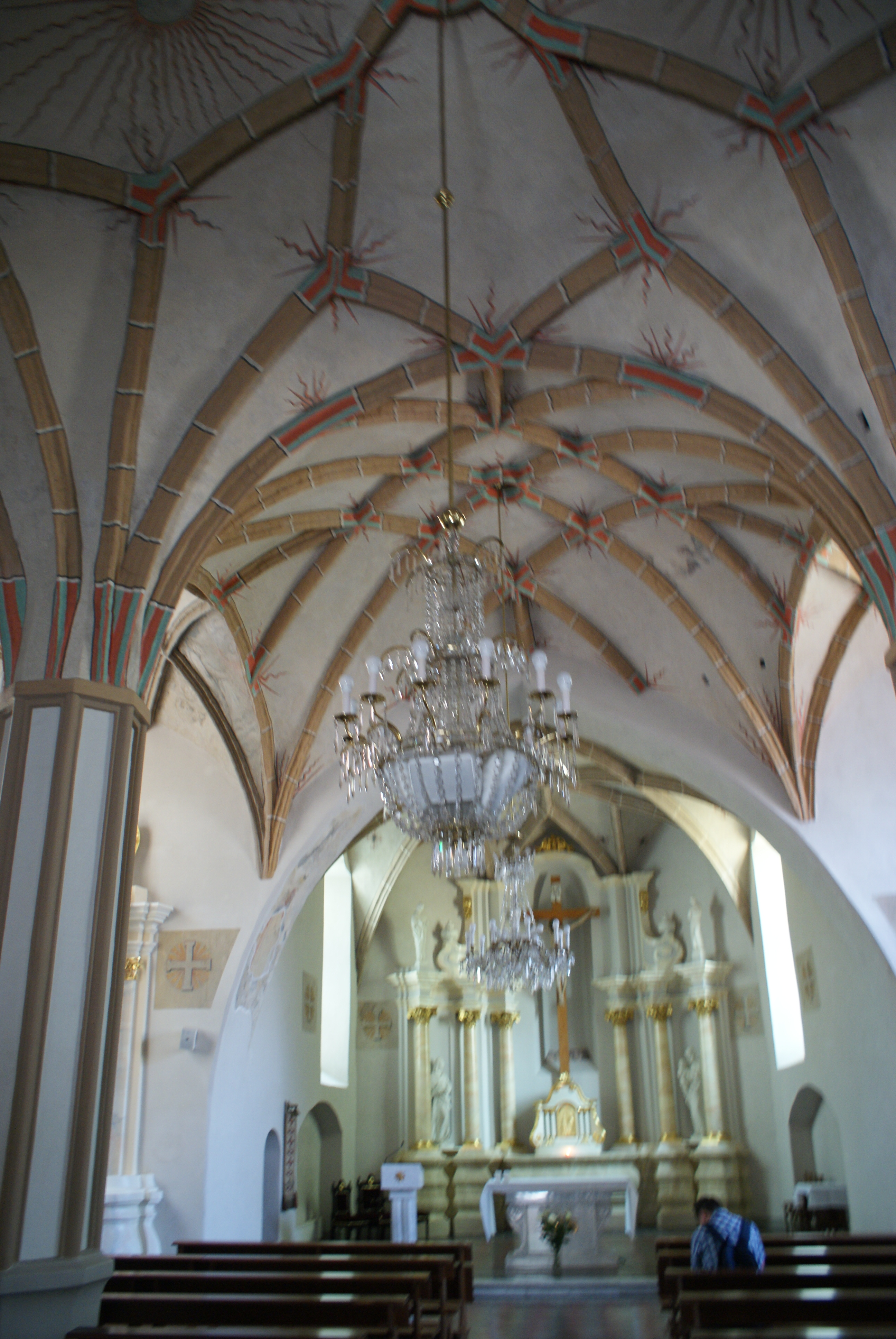 Church of St. Nicholas in Vilnius